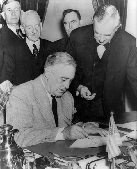 United States President Franklin D. Roosevelt signing the declaration of war against Germany, marking US entry into World War II in Europe. Senator Tom Connally stands by holding a watch to fix the exact time of the declaration. Original caption: "President Roosevelt signs the Declaration of War against Japan, December 1941"